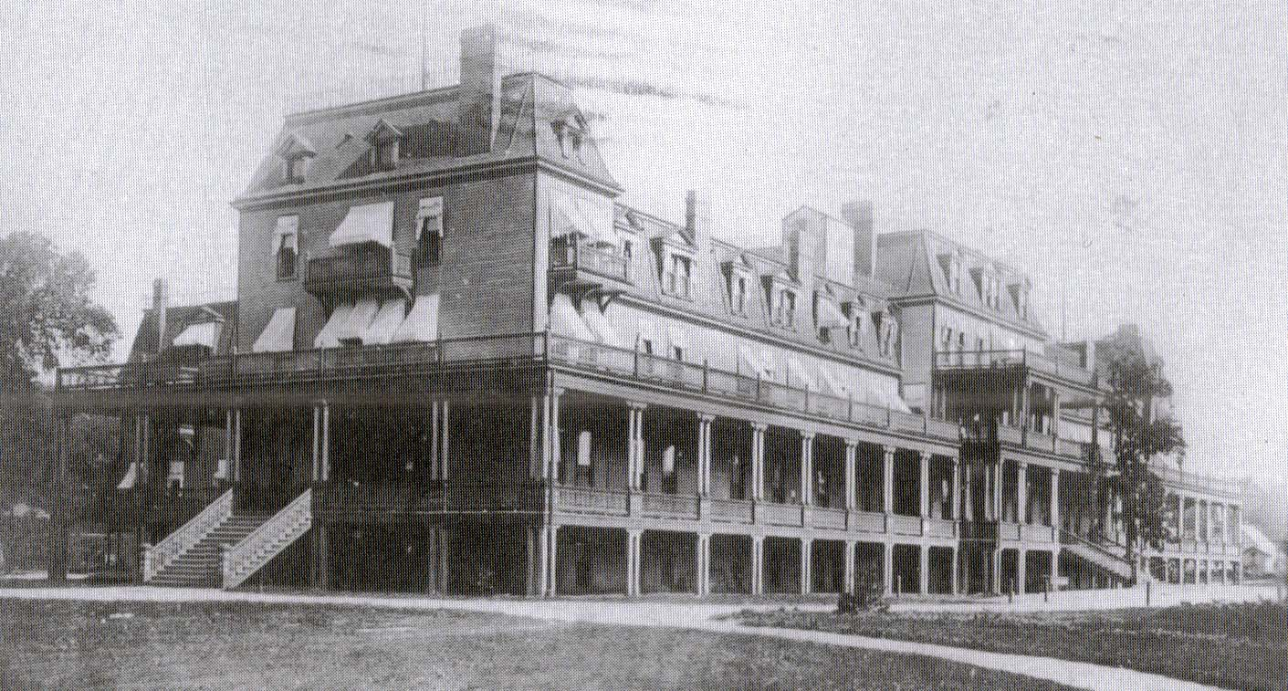 The original Elms Hotel, opened in 1888 and destroyed by fire on May 9, 1858. Rebuilt and burned once again. The third and current Elms Hotel opened on 1912 is still a popular spa resort for visitors. From: "Reflections of Excelsior Springs: A Pictoral History of Excelsior Springs, Missouri" published 1992